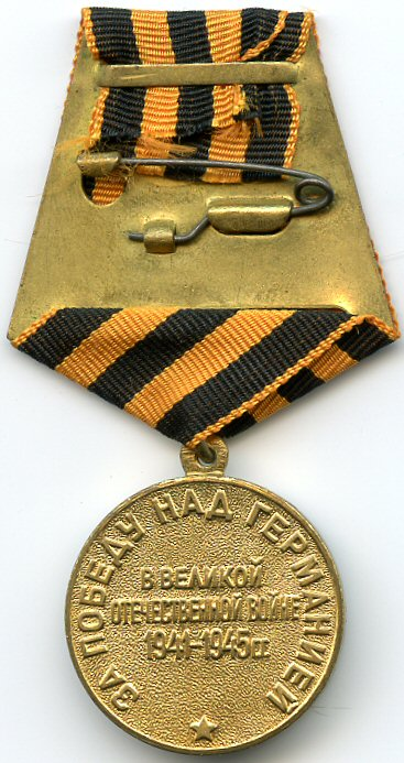 Reverse of the Soviet WW2 Victory Medal